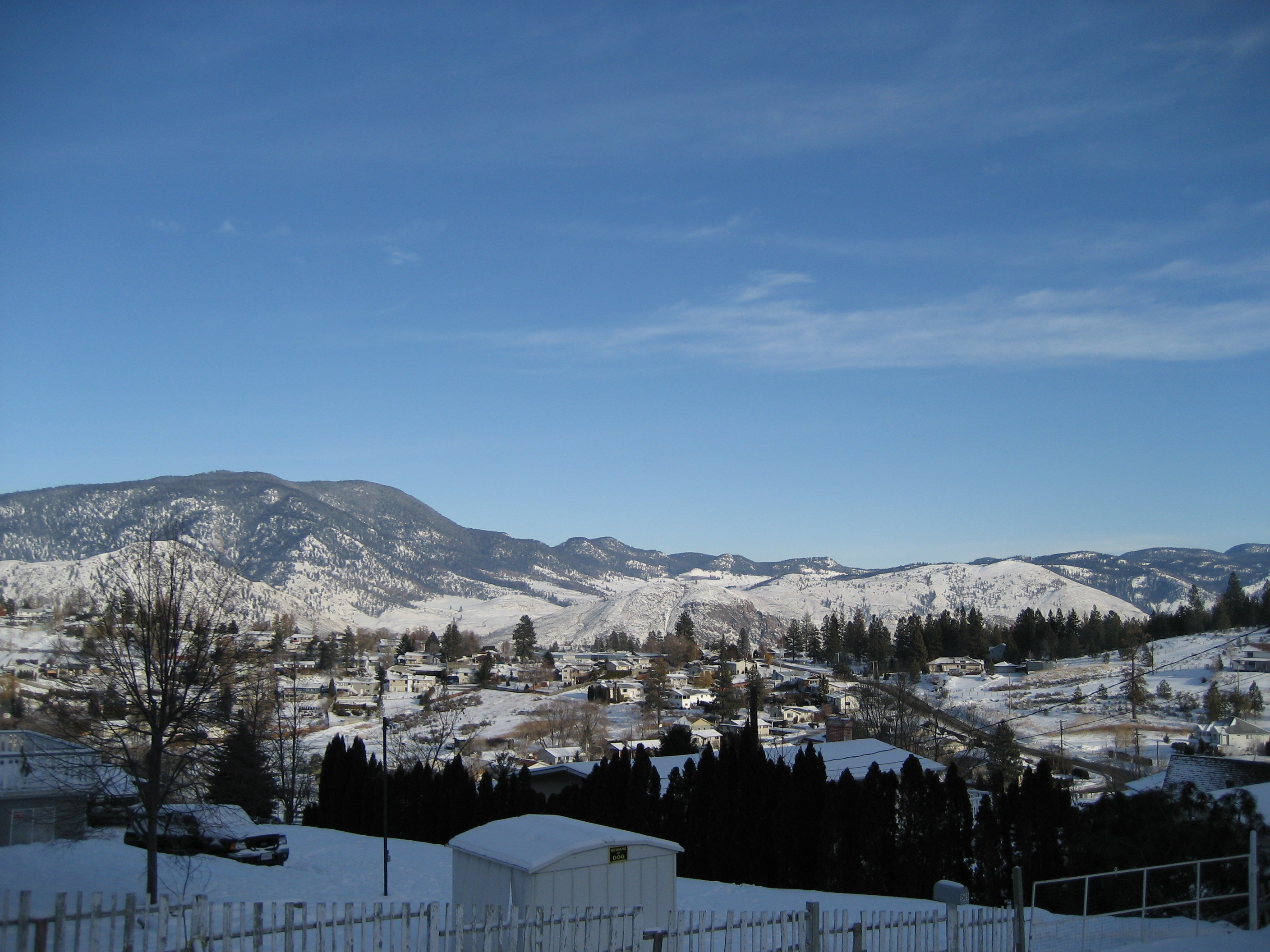 Barnhartvale view facing North, 2006